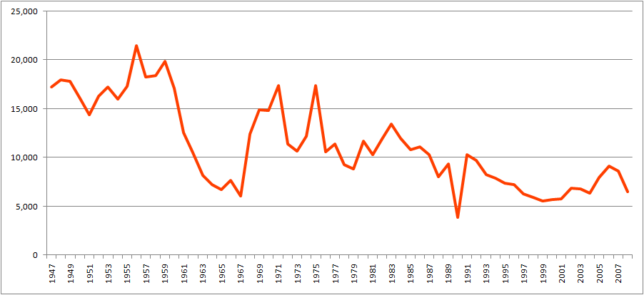 This is a graph showing Luton Town F.C.'s average attendances for each season up to the end of 2007-08. I made it myself sourcing statistics from [1].